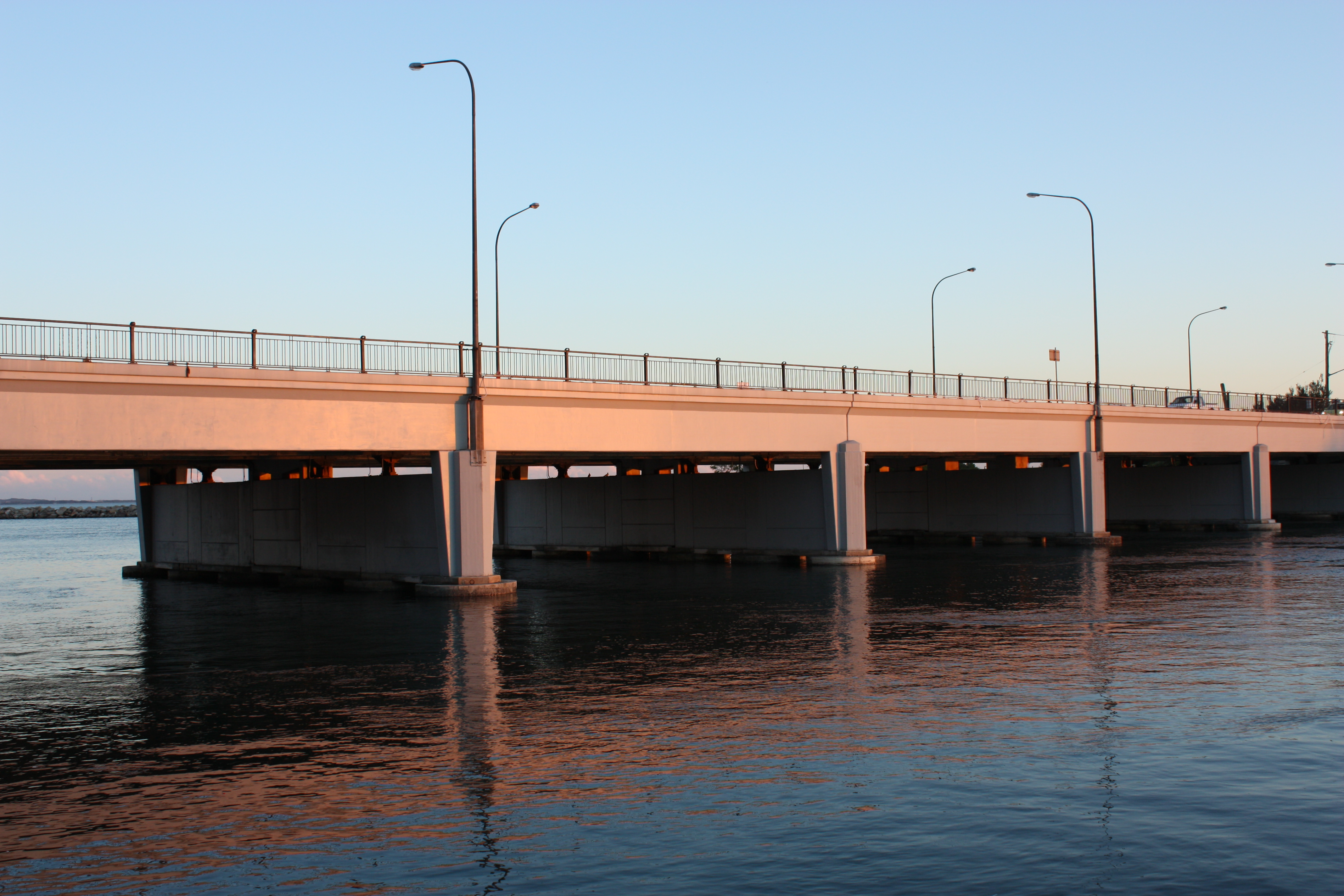 Endeavour Bridge, Cook River, Kyeemagh, New South Wales, Australia